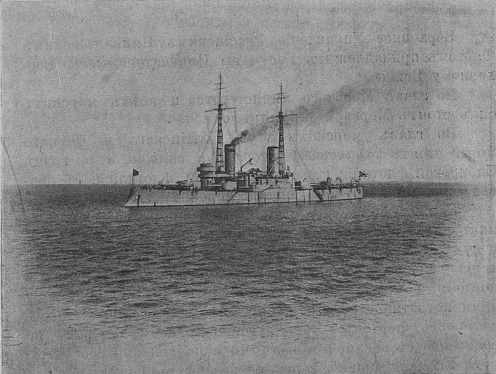 Russian battleship Andrei Pervozvanny